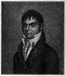 Giuseppi Siboni